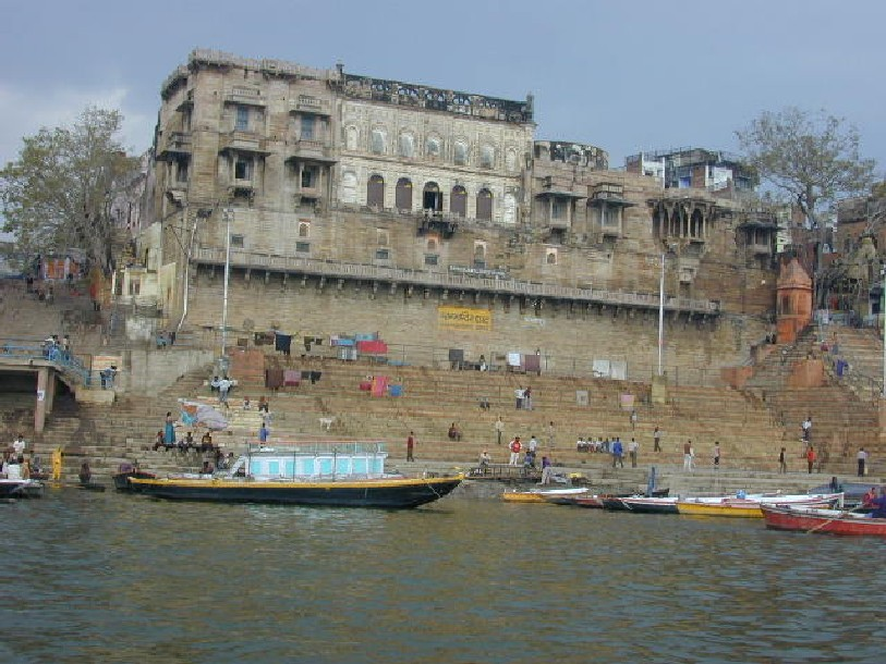 See Varanasi Development Cooperation Handbook/Stories/Responsible Development - Varanasi The Varanasi Heritage Dossier Kautilya Society Mediendatei abspielen Vrinda Dar - How we got involved in heritage protection of Varanasi